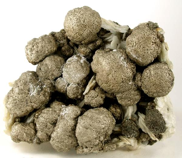 Marcasite, Baryte Locality: Stari Trg Mine, Trepča complex, Trepča valley, Kosovska Mitrovica, Kosovo (Locality at ) Size: 9.3 x 7.4 x 2.8 cm. A very unusual looking, very fine combination piece from the ancient and famous Stari Trg Mine at Trepca, Kosovo. The bladed baryte matrix is richly covered with sculptural aggregates of bronzy marcasite. The marcasites have a rounded, botryoidal form that look like mushroom caps. A label in German is attached to the bottom. Ex. Wes Parker Collection.